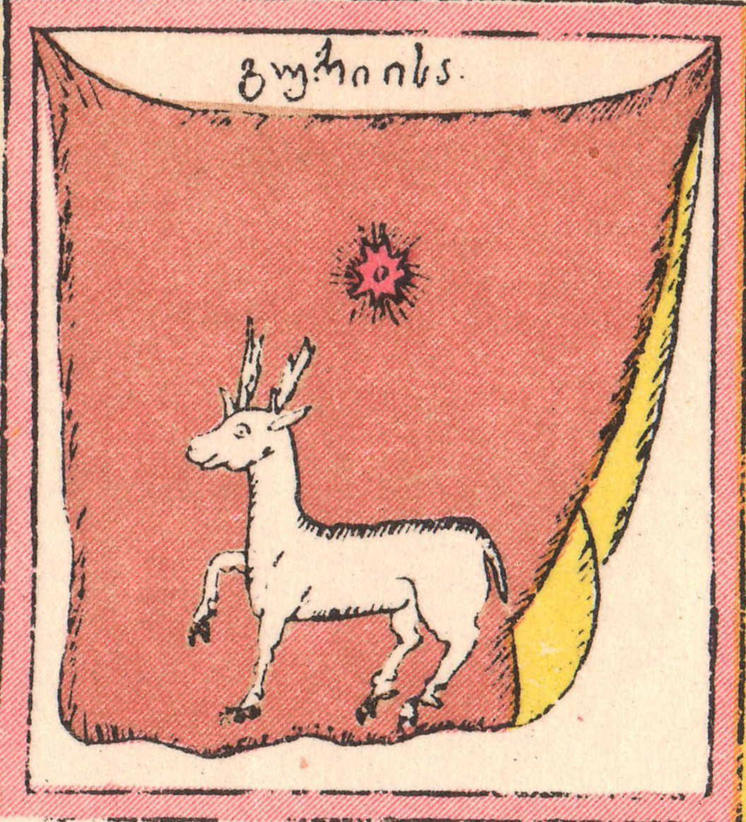 Coat of Arms of the Principality of Guria of the Kingdom of Georgia (by Vakhushti Bagrationi)